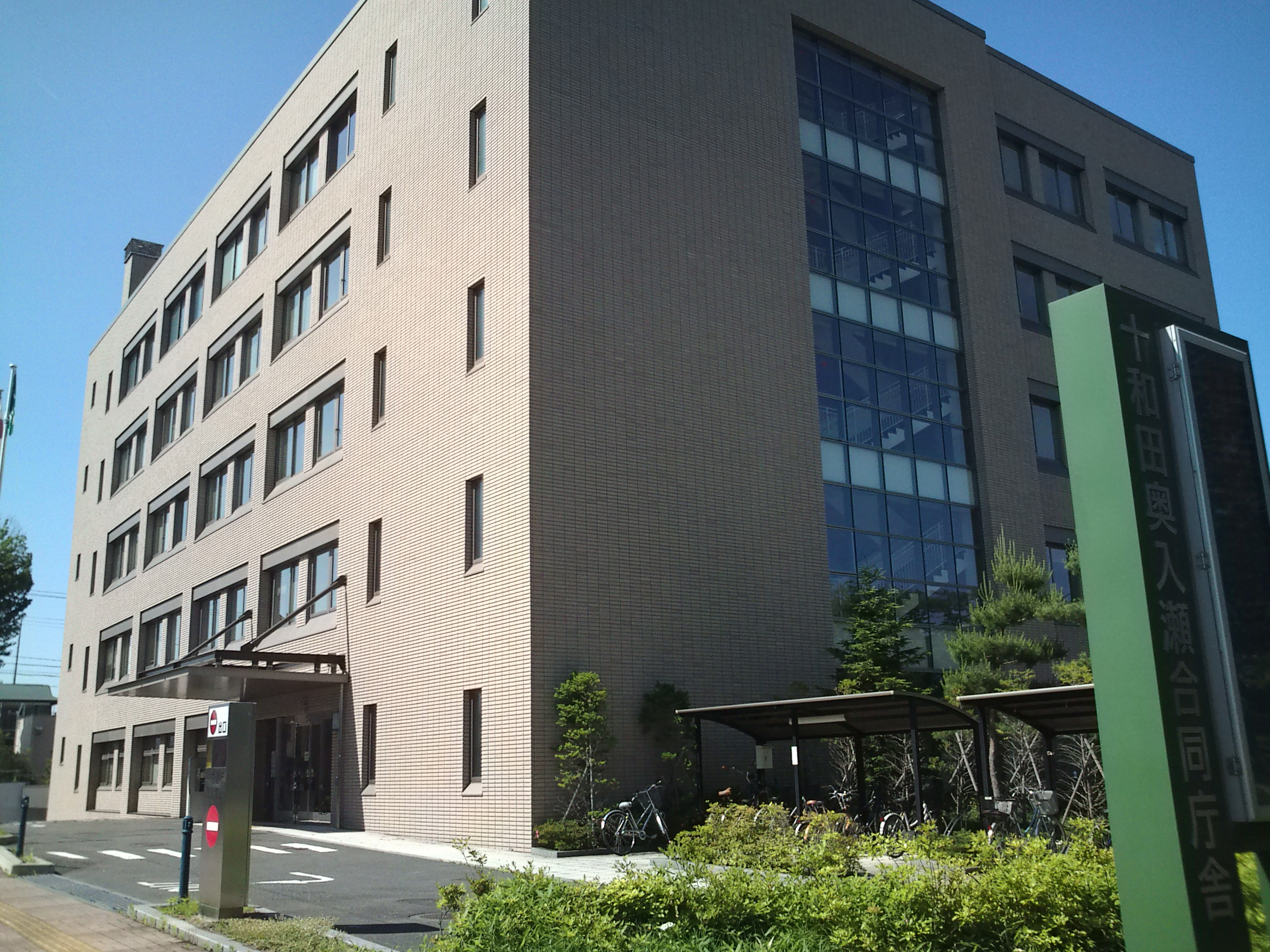 Towada-Oirase Common Building for Government Offices (national government)